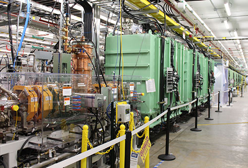 On 11-12 July 2018, the Facility for Rare Isotope Beams accelerated first beam in three of forty-six superconducting cryomodules (painted green). Beam in the warm radio-frequency quadrupole was previously accelerated in September 2017.